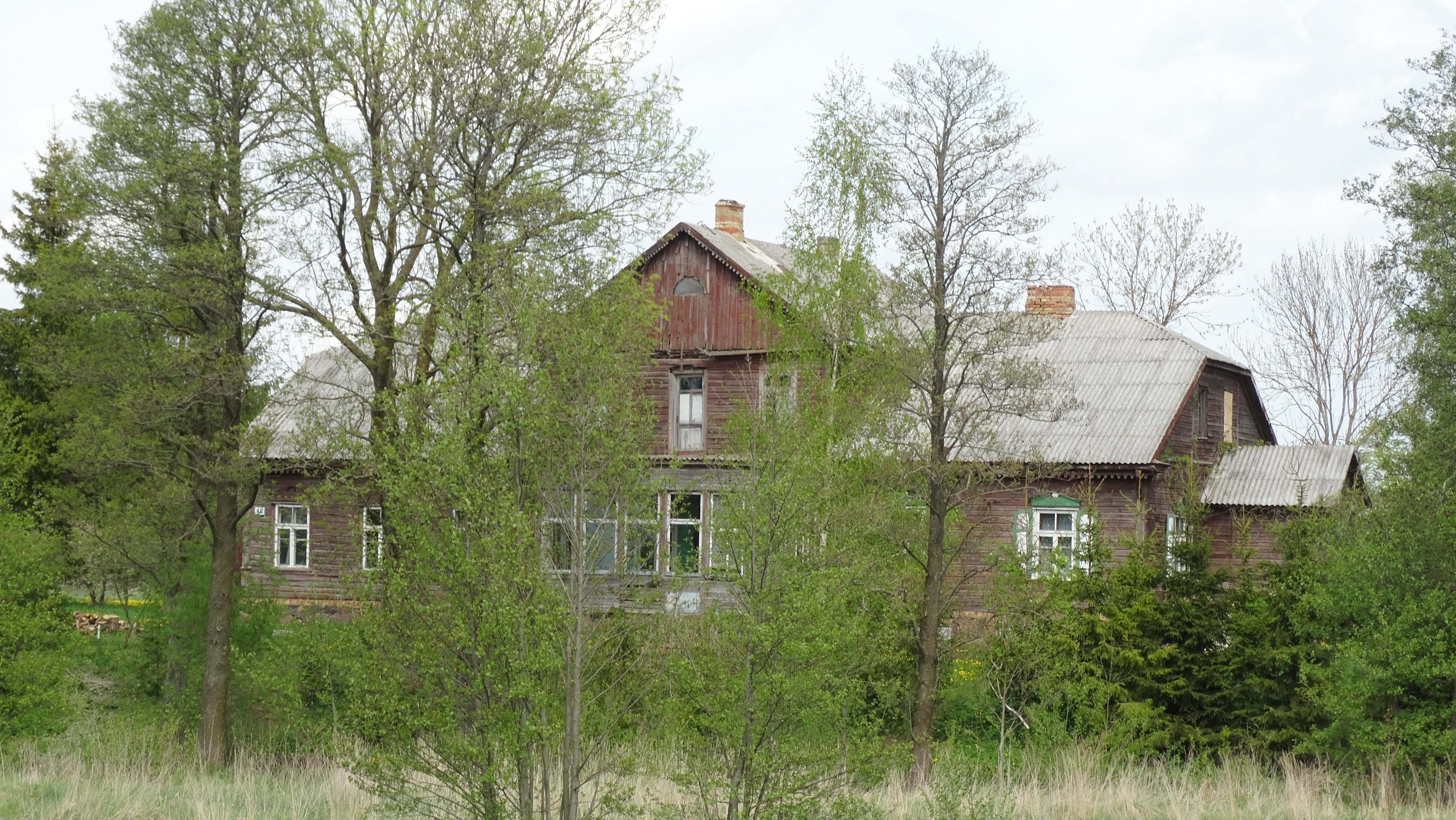 Vileikiai, former manor, Radviliškis district, Lithuania